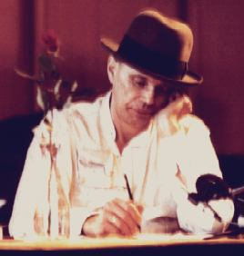 Joseph Beuys photographed by Rainer Rappmann